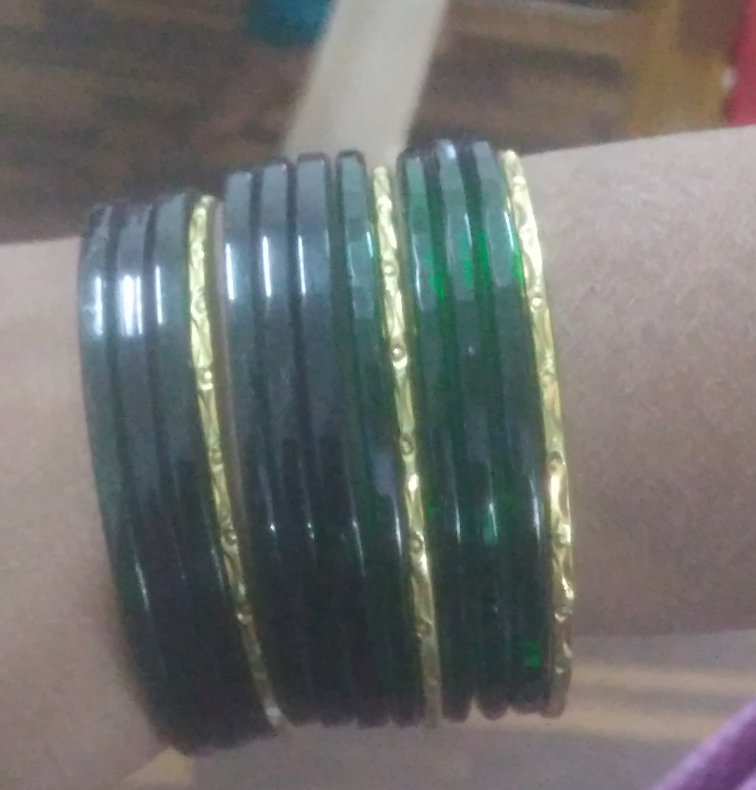 भारतीय अंलकार- बांगडया